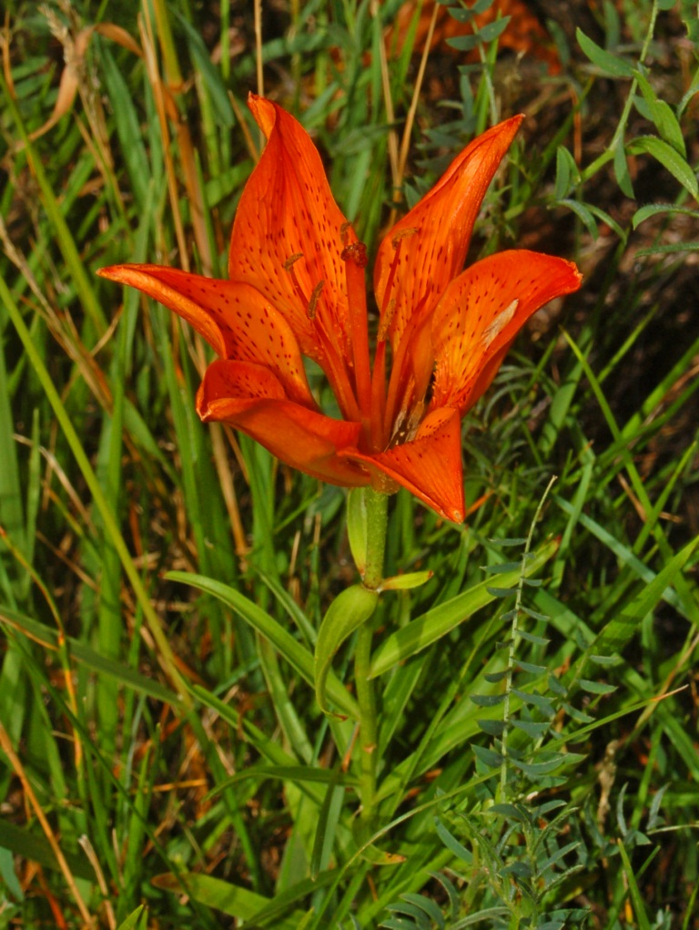 Lilium bulbiferum var. croceum - Parco dell'Antola, Genova, Italy